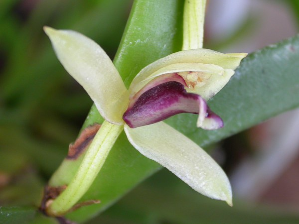 Heterotaxis equitans